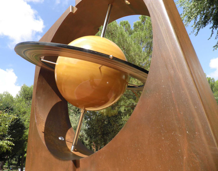 Paseo del Sistema Solar